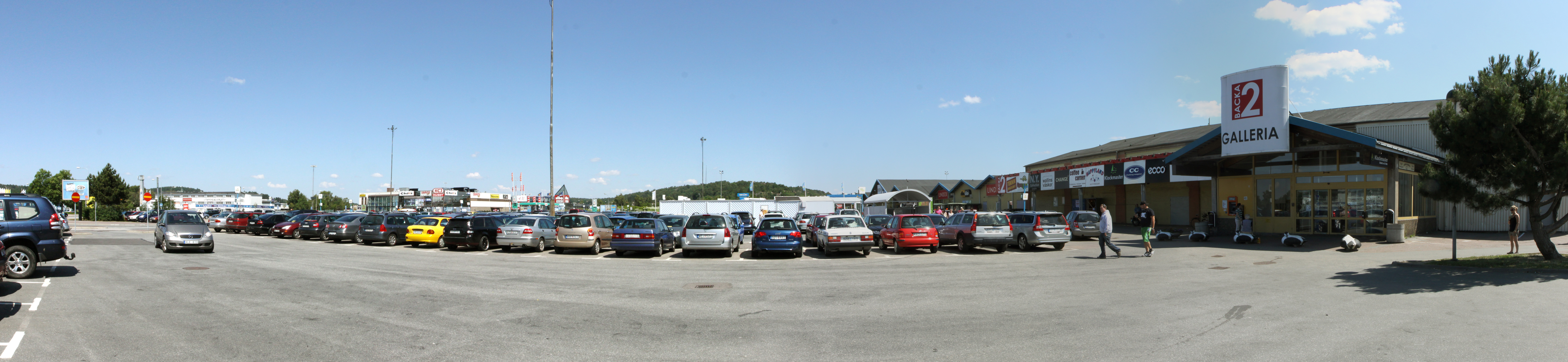 A panorama over one of the warehouses at Backaplan as well as the parking lot.